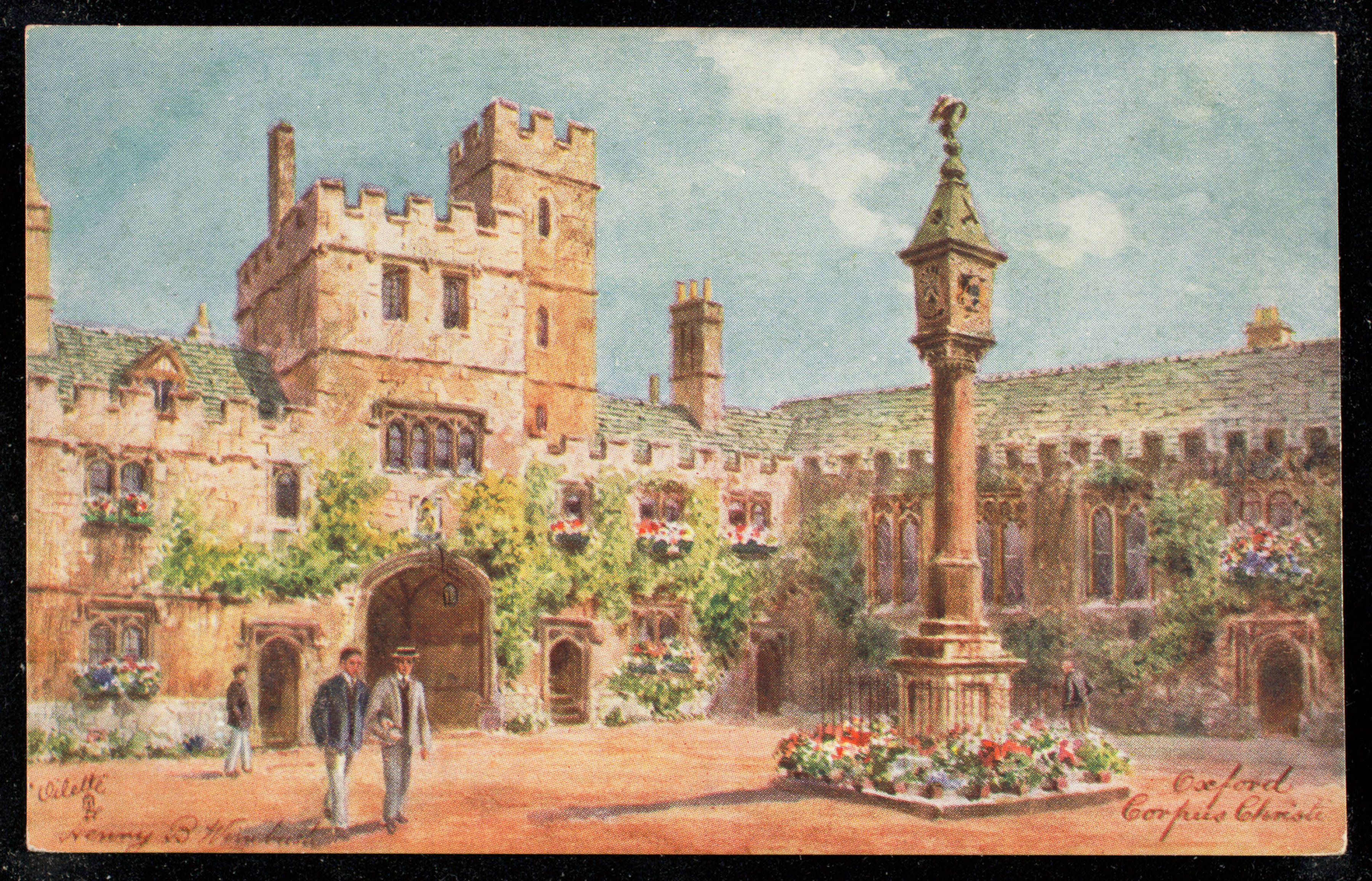 Oxford Corpus Christi